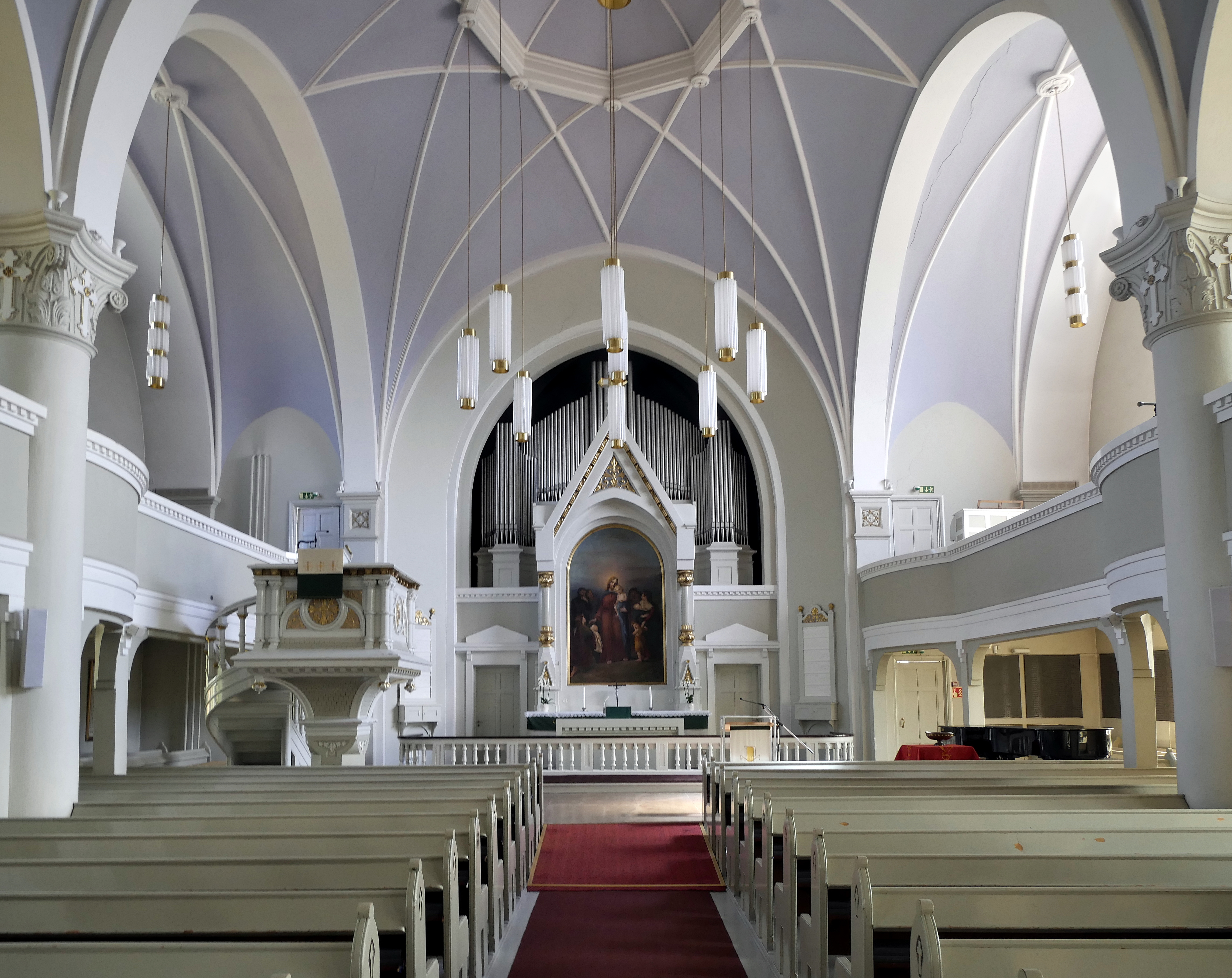 Interior of Kauhava Church, Finland.